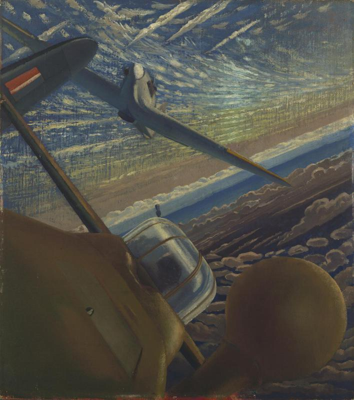 A view fron towards the tail of a Halifax bomber, showing the rear gunners position, while the plane passes beneath an ascending Hurricane. Multicoloured clouds form the background.